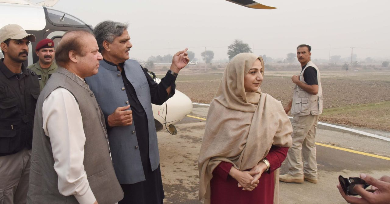 Prime Minister Nawaz Sharif is discussing further extension of Sangla hill interchange with his federal Minister Ch. Berjees Tahir